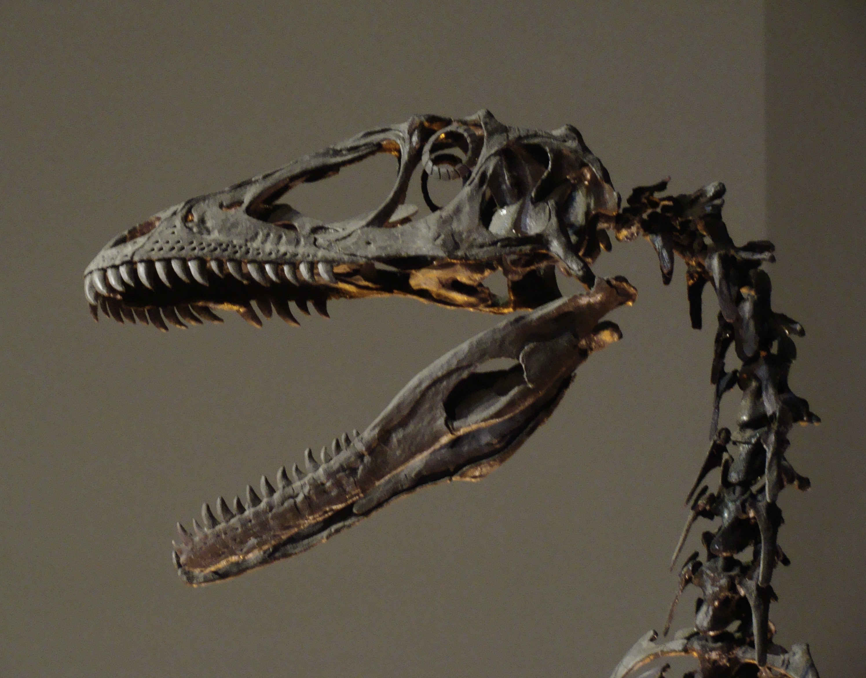 Deinonychus antirrhopus skeleton, Philadelphia Academy of Natural Sciences